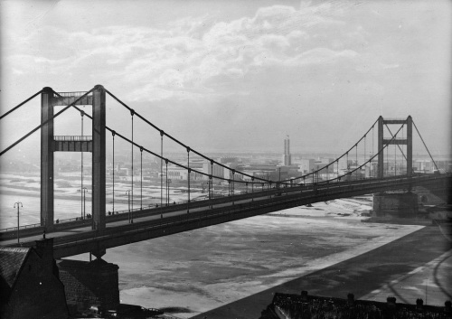 King Aleksandar bridge in Belgrade 1936,blown up in 1941 by nazi Germans.